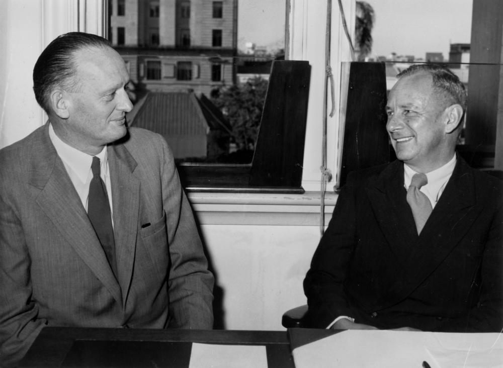 State Librarian James Stapleton and guest, Brisbane, 1954 Doctor T. R. Schellenberg and James L. Stapleton are pictured in the State Librarian's office. (Description supplied with photograph).